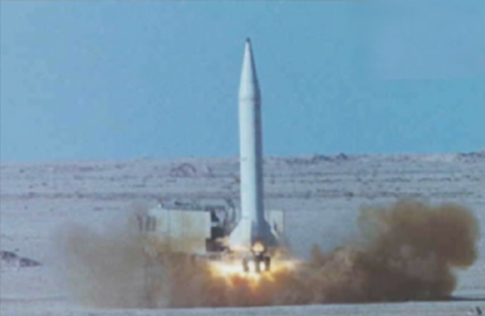 Al Samoud missile during a test-launching supervised by the Iraqi army.